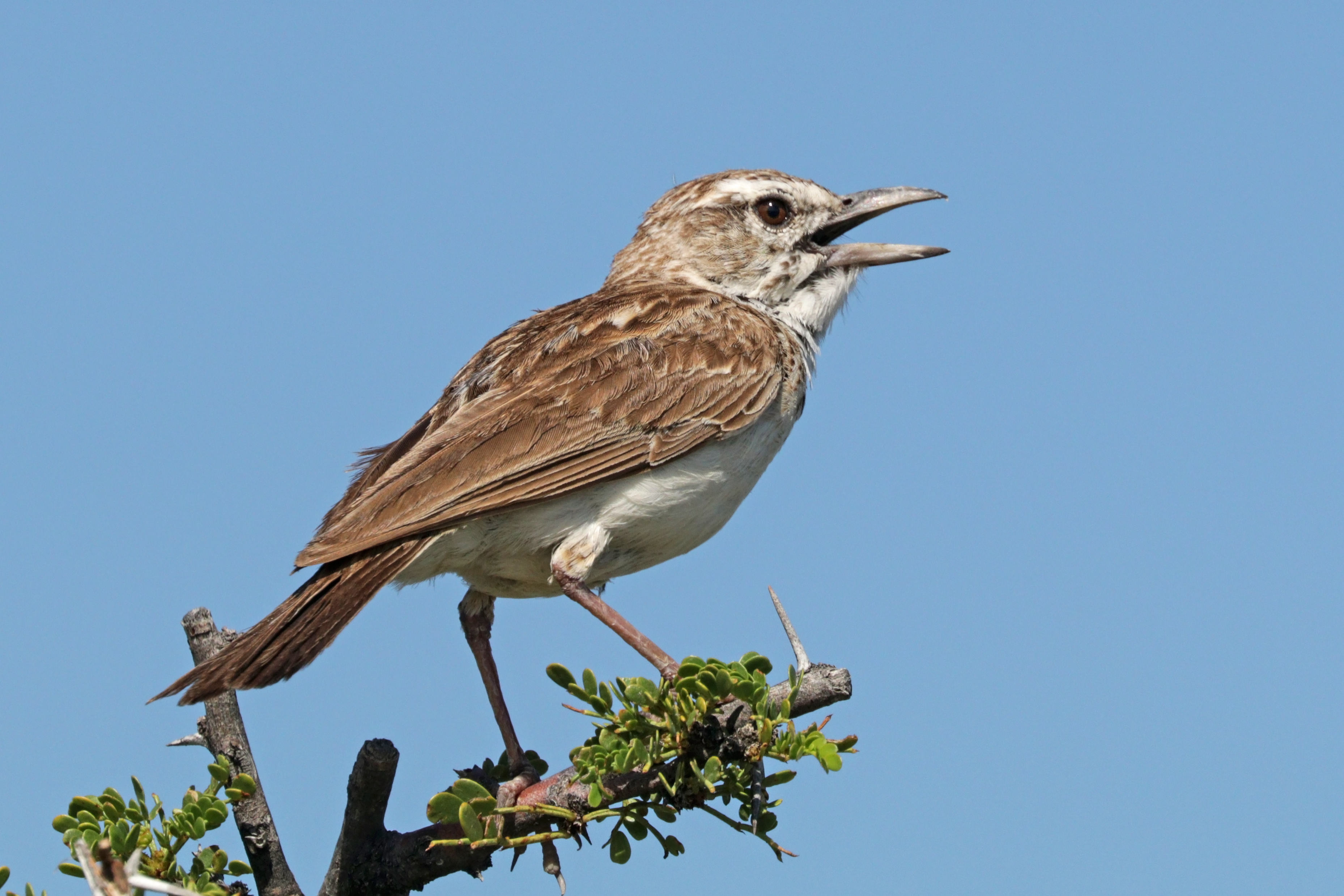 Sabota lark (Calendulauda sabota waibeli), Etosha National Park, Namibia